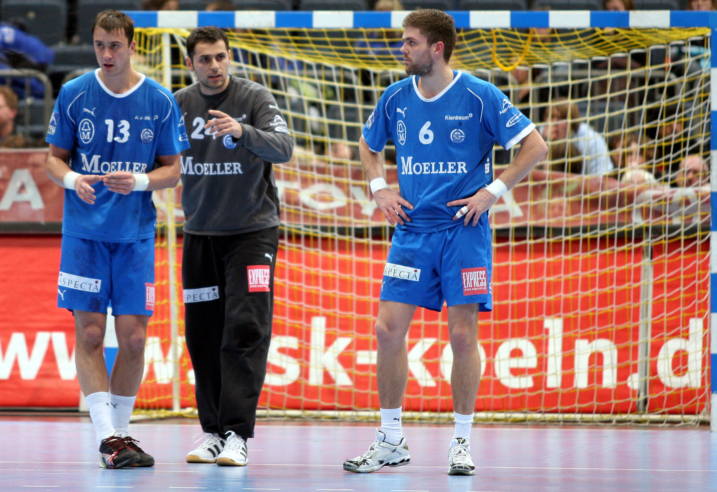 Mladen Jovicic, French handball goalkeeper of VfL Gummersbach, on December 27th, 2008 in the Lanxess Arena of Cologne. Prior the Bundesliga game VfL Gummersbach - Frisch Auf! Göppingen.